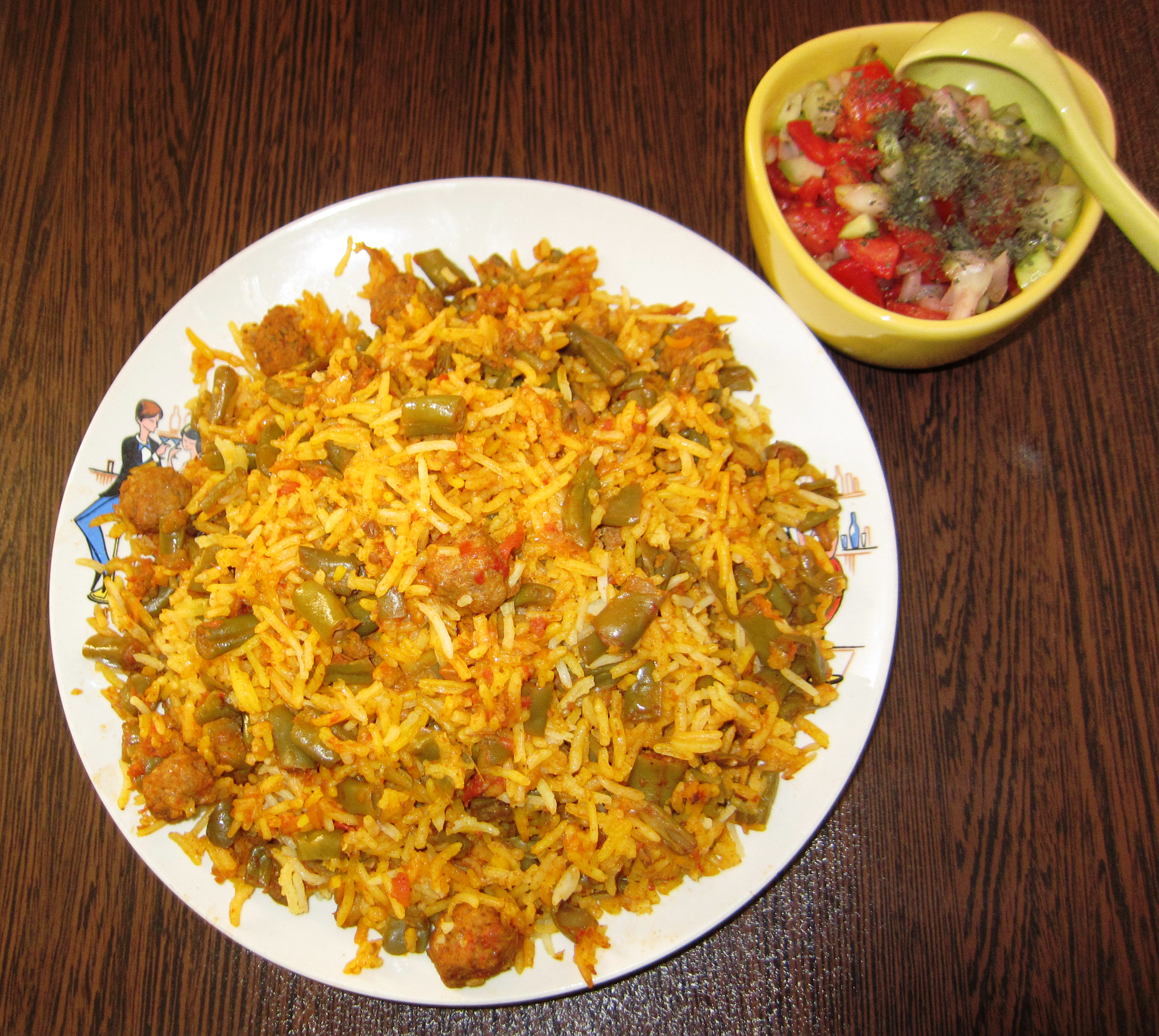 Loobia Polo, a kind of Iranian rice dish, with Shirazi salad.